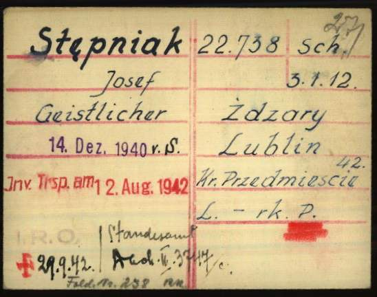 Registration card of Józef Stępniak, a.k.a. Florian Stępniak, as a prisoner at Dachau Nazi Concentration Camp. Recorded date of death (signaled with a red cross) is 29.09.1942, not 12.08.1945, as commonly stated.